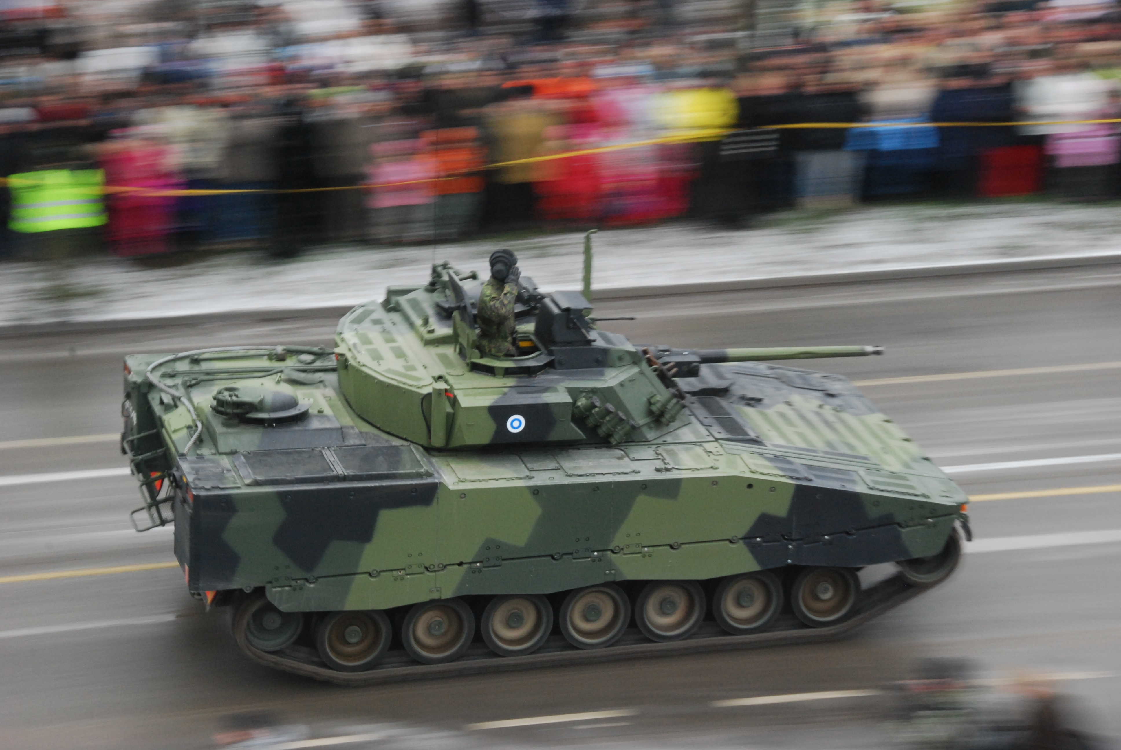 Patria Hägglunds CV9030 infantry fighting vehicle of Karelia Brigade passing reception stand at Finnish independence day parade, Riihimäki, Finland.